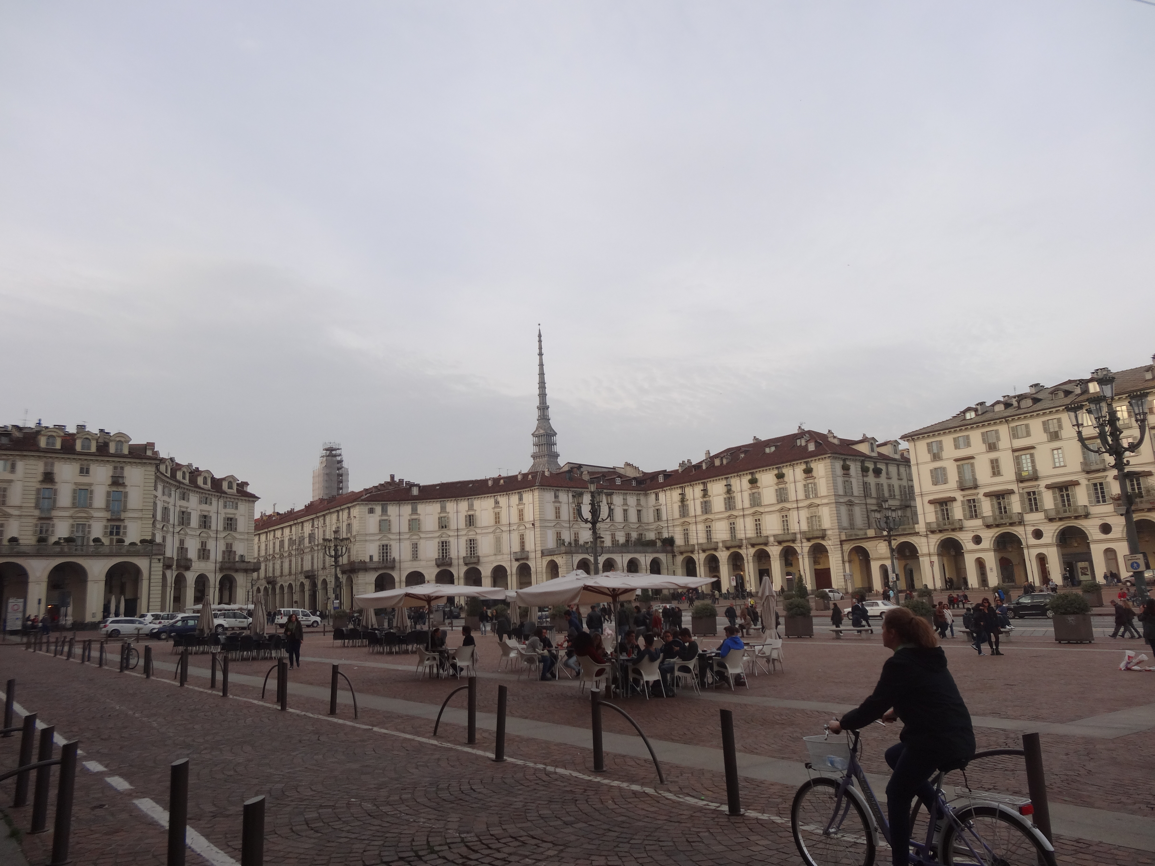 Torino